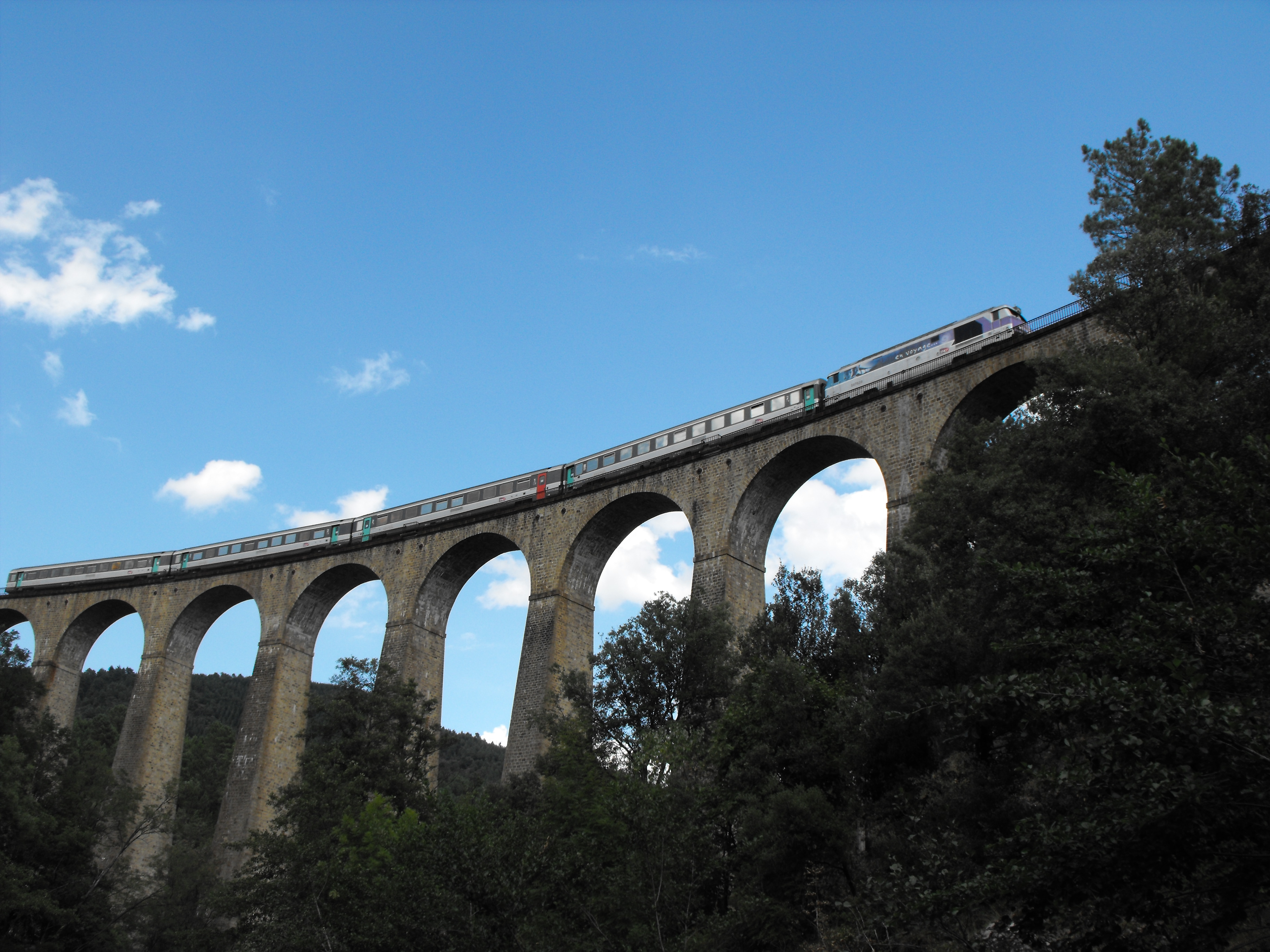 Viaduct Chamborigaud.